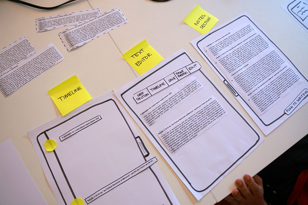 Nonfunctional prototype Luis Guzman